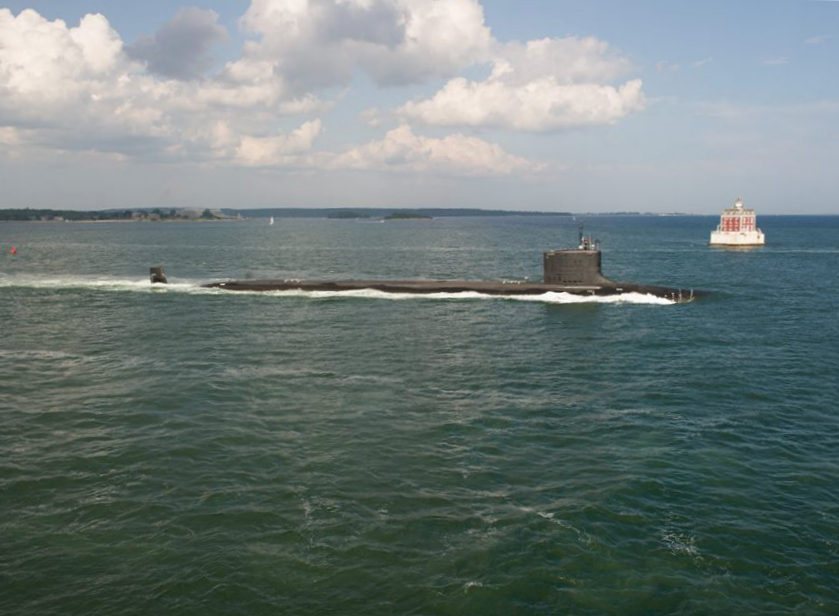 The U.S. Navy submarine USS North Dakota (SSN-784) underway during bravo sea trials in the Atlantic Ocean. It is the 11th ship of the Virginia class, the first U.S. Navy combatants designed for the post-Cold War era.